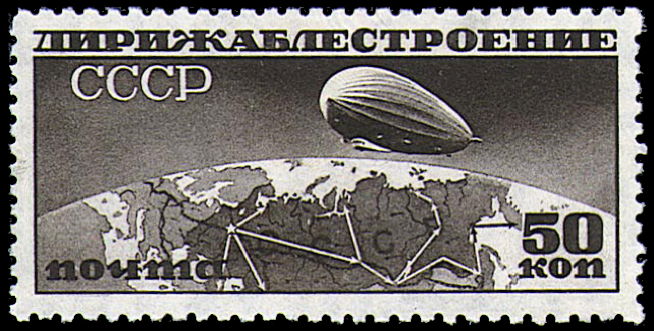 Airmail postage stamp of the Soviet Union, building of USSR dirigeables, 1931, 50 kopecks